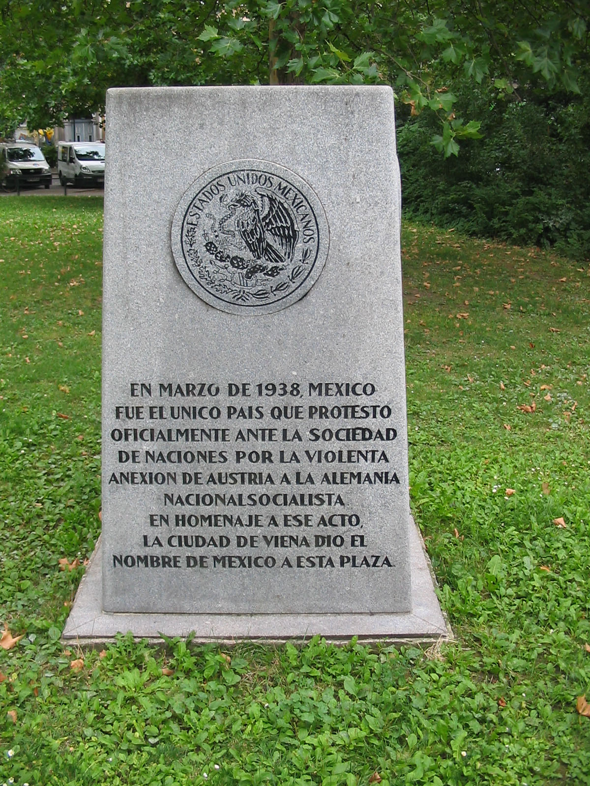 Memorial stone with Spanish inscription: The square is named in honor of Mexico, world's only country officially protesting against "Anschluss" in 1938.